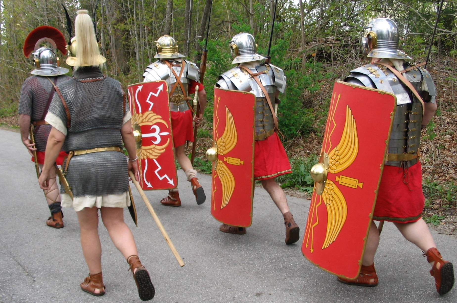 Roman re-enactors portraying 1st-century AD legionaries of Legio III Cyrenaica on the march.